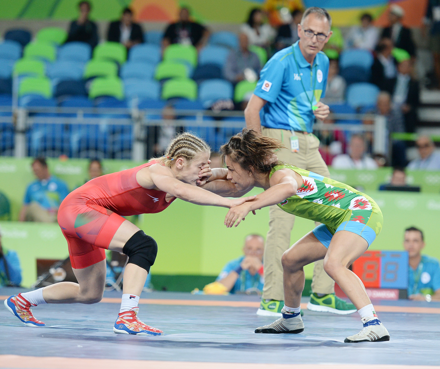 Wrestling at the 2016 Summer Olympics, Stadnik vs Yankova